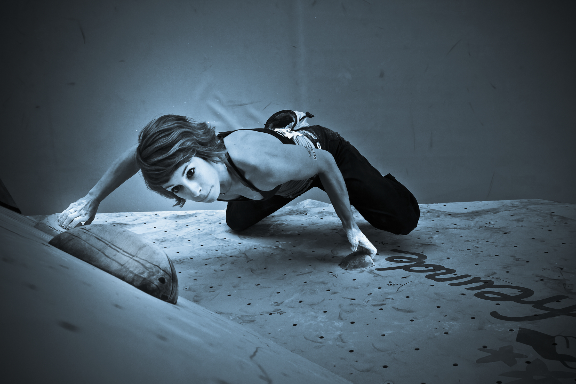 Natalija Gros, world cup Vienna, Austria 2010 photo Jure Breceljnik